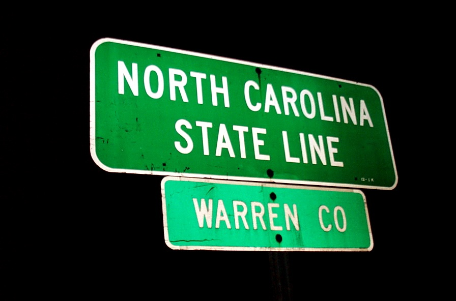 North Carolina State Line: Warren Co. At the Virginia line on I-85. Paschall (vicinity) NC